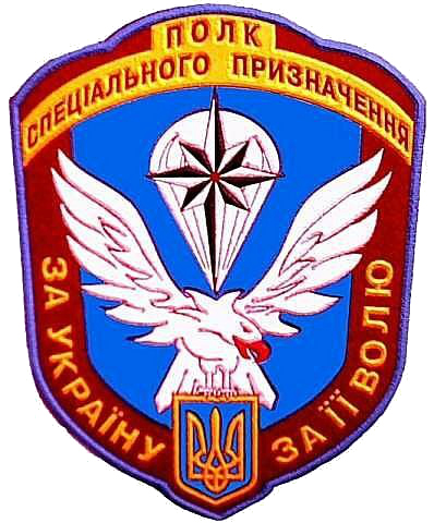 Shoulder sleeve insignia of the 8тх Separate Special Force Regiment (Khmelnytskyi) of the Main Directorate of Intelligence of the Ministry of Defence of Ukraine